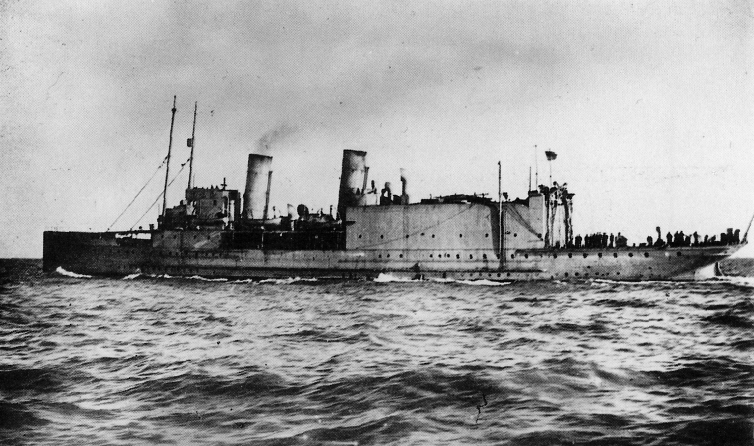 side view of the carrier HMS Vindex during World War I